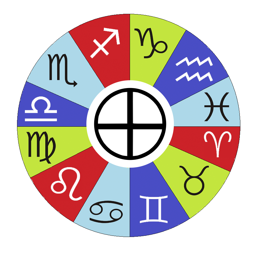 Colored elemental triplicity in the Zodiac: fire (red), earth (green), air (cyan) and water (blue).